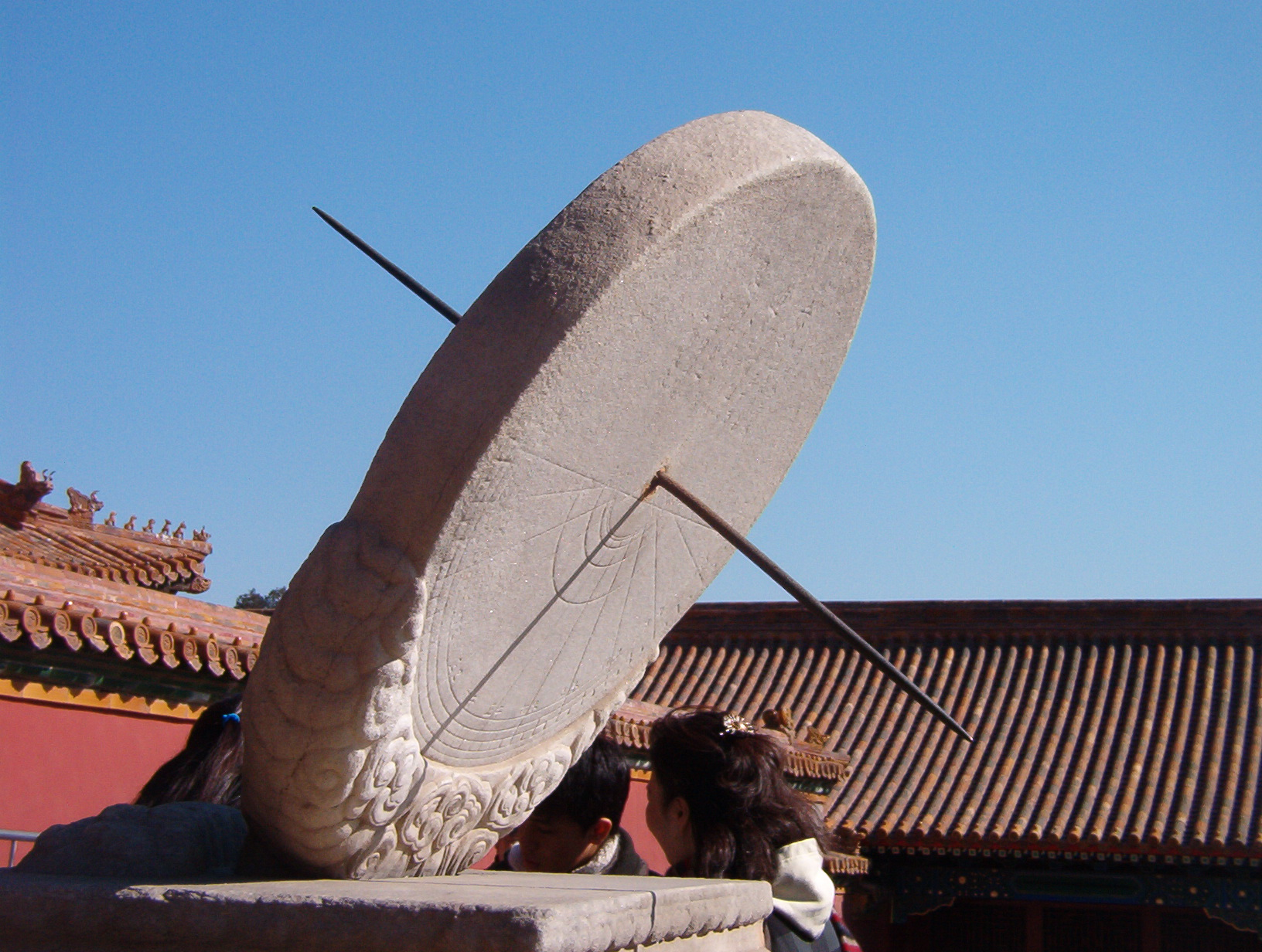 A sundial in the Forbidden City, or Imperial Palace, in Beijing